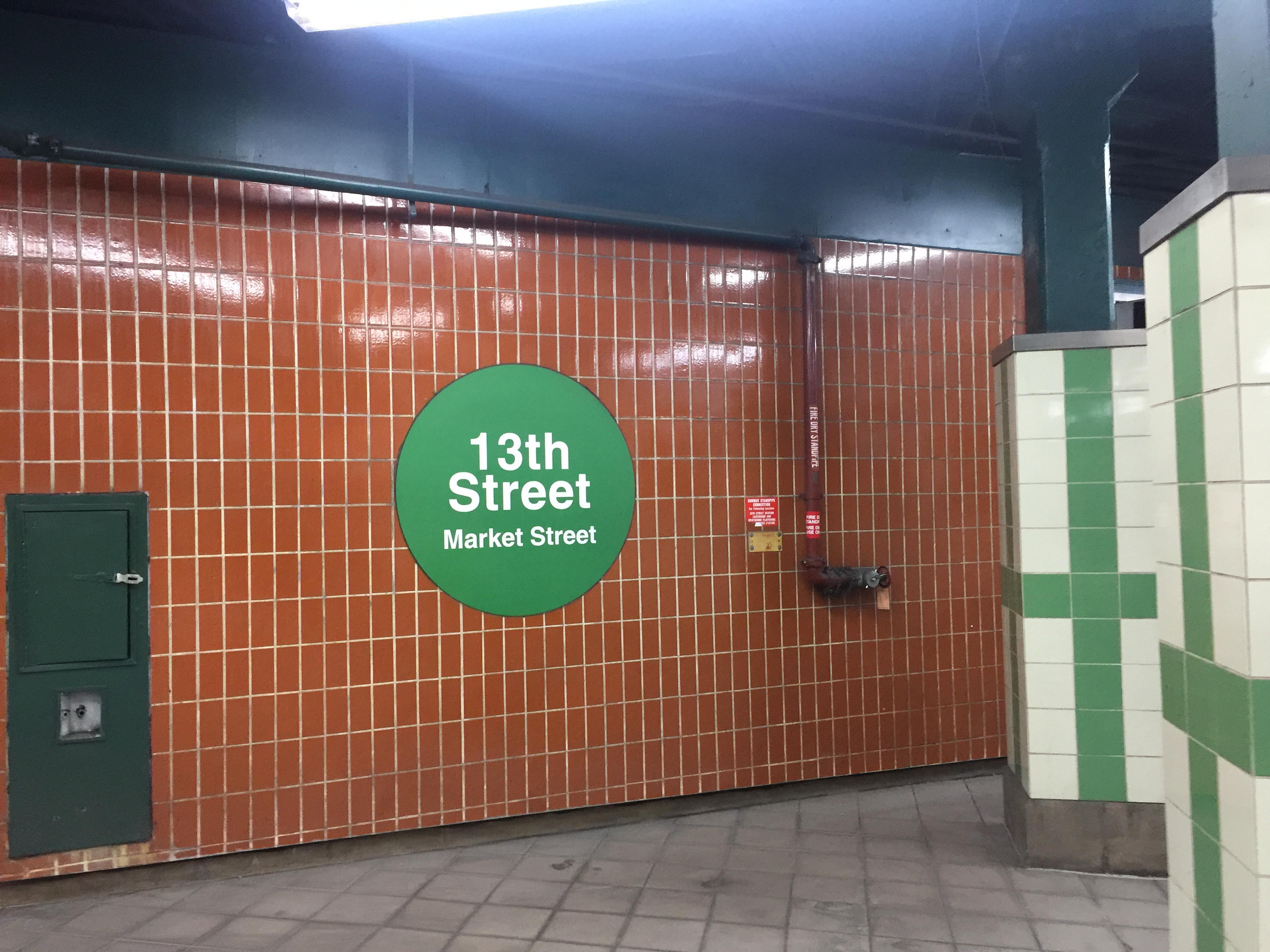 13th street subway entrance